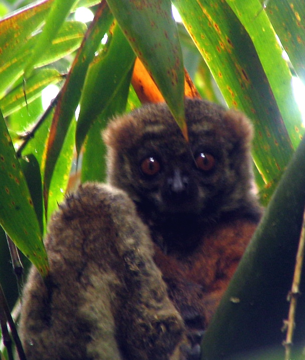 The Avahi is a woolly lemur, Family Indridae. This photo was taken on a hike in the nature park Ranomafana [2], located approximately 60km northeast of Fianarantsoa, Madagascar. A nocturnal animal, it takes refuge in the canopy during the day.